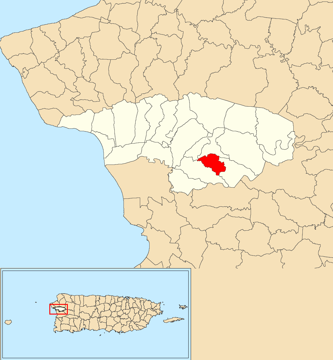 Casey Abajo, Añasco, Puerto Rico locator map